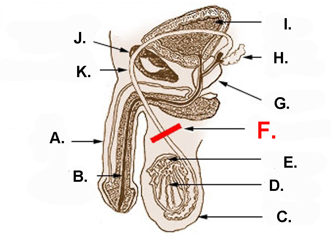 A diagram of the human male genitalia surrounding a vasectomy. A.) Penis; B.) Urethra; C.) Scrotum; D.) Testicle; E.) Epididymis; F.) Vasectomy; G.) Prostate; H.) Seminal vesicle; I.) Bladder; J.) Pubic bone; K.) Vas deferens